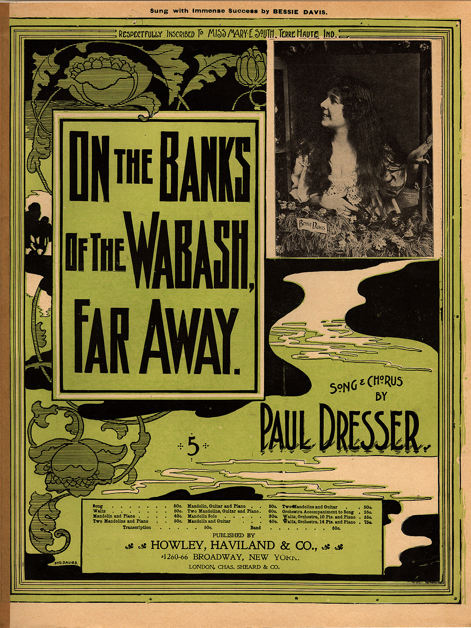 The sheet music cover of "On the Banks of the Wabash, Far Away", words and music by Paul Dresser. Publisher by Howley, Haviland & Co. Cover features singer Bessie Davis aka Bessie McCoy Davis.